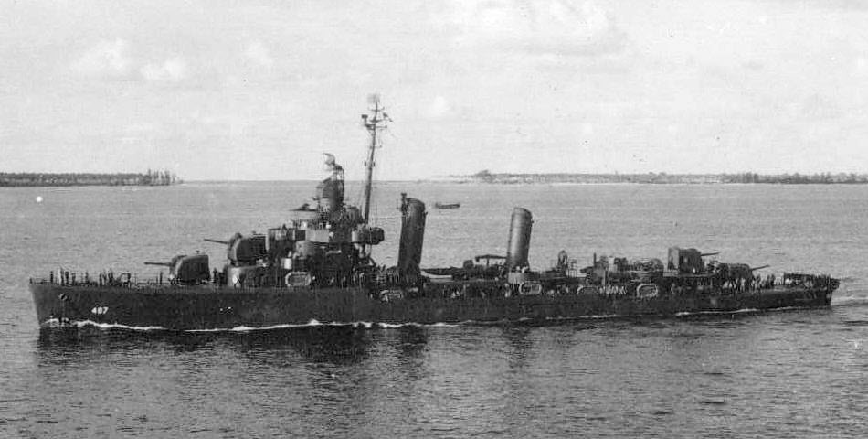 The U.S. Navy destroyer USS Lardner (DD-487) at a Pacific anchorage, possibly Manus, 1945.